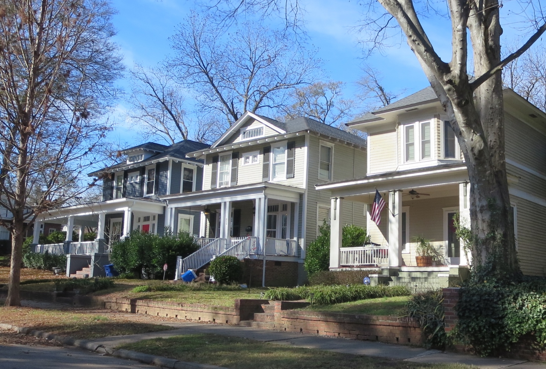 A row of historic houses on Maple Street in the Converse Heights neighborhood near downtown Spartanburg.